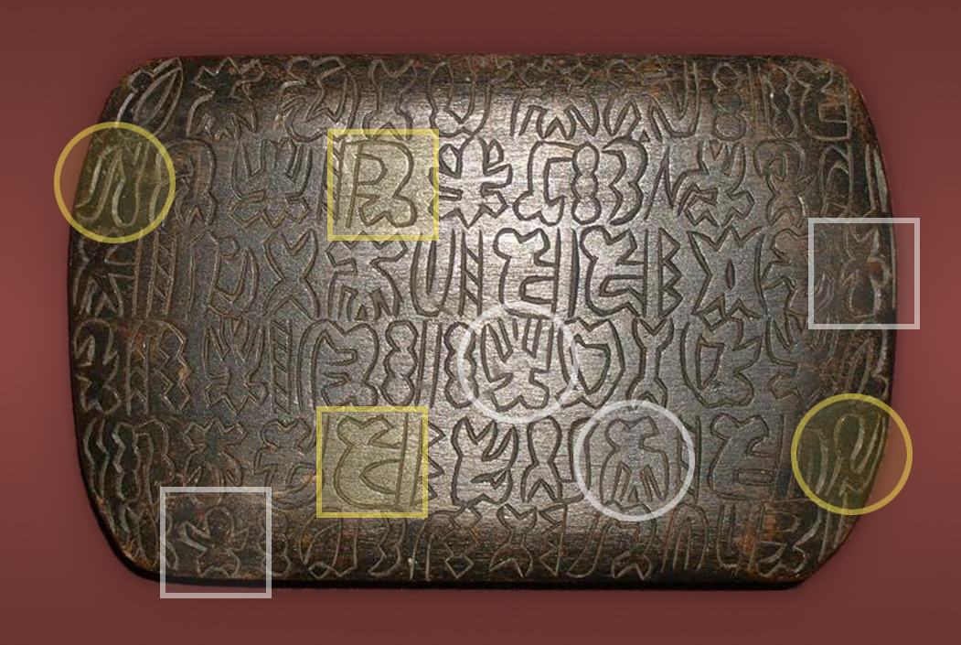 Glyphs in the Rongorongo writing system are written in reverse boustrophedon. The reader begins at the bottom left-hand corner of a tablet, reads a line from left to right, then rotates the tablet 180 degrees to continue on the next line from left to right again. When reading one line, the lines above and below it appear upside down. However, the writing continues onto the second side of the tablet at the point where it finishes off the first, so if the first side has an odd number of lines, the second will start at the upper left-hand corner, and the direction of writing shifts to top to bottom. Larger tablets and staves may have been read without turning, if the reader were able to read upside-down. On this imitation tablet, a few glyphs have been highlighted and sorted by pair, one right-side up and the other upside down.